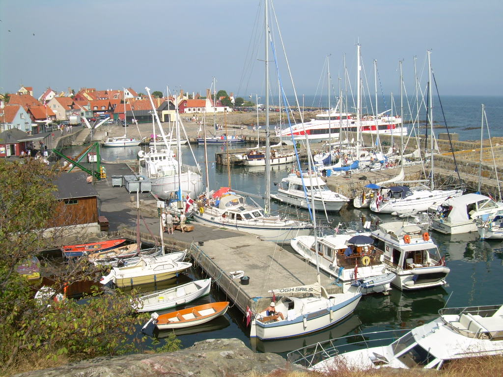 View over Gudhjem Harbour, Bornholm, DenmarkDansk: Udsigt over havnen i Gudhjem, Bormholm